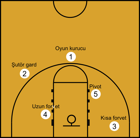 Basketball PositionsTürkçe: Basketbol pozisyonları